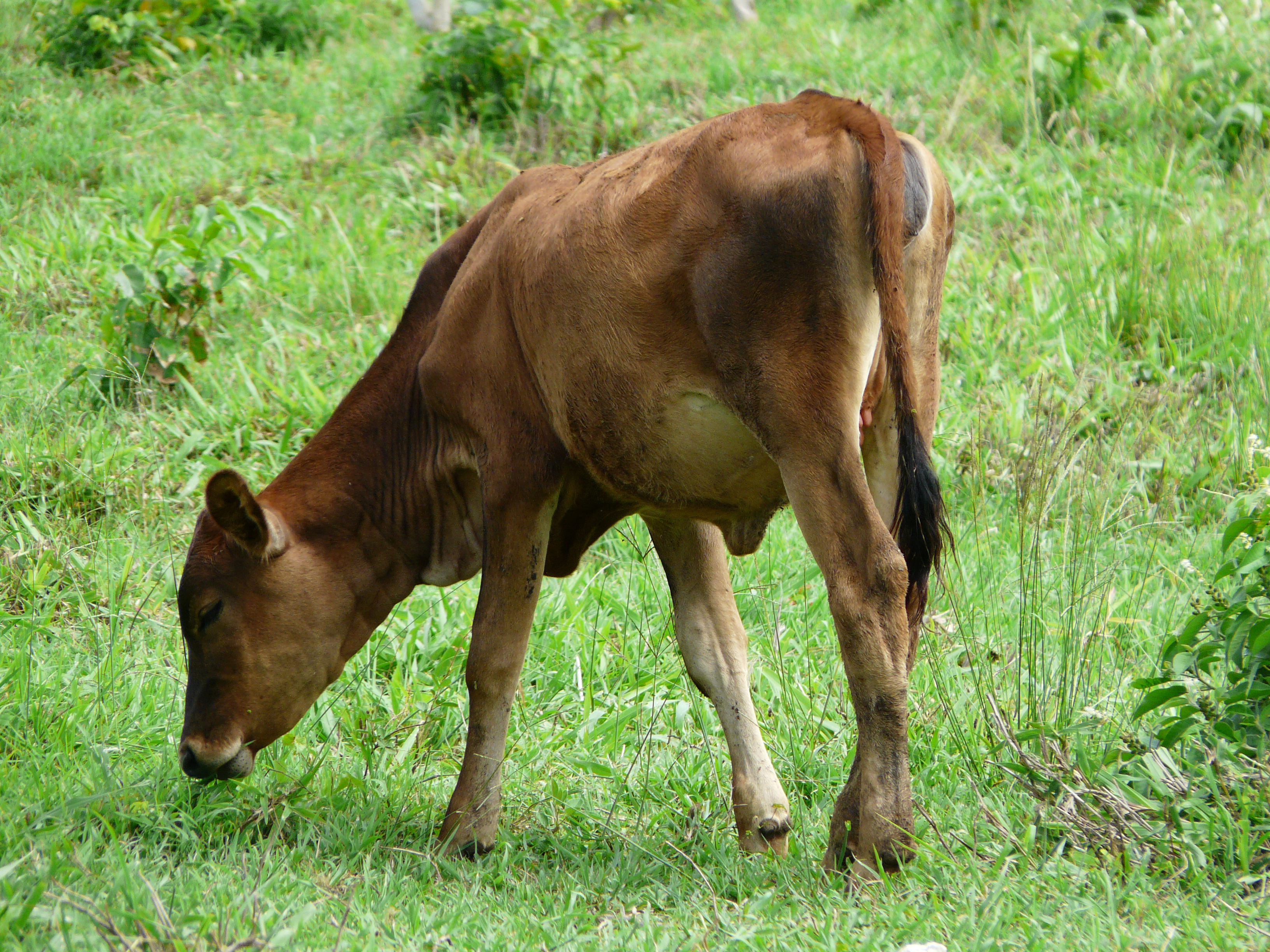 Venezuela, Upata